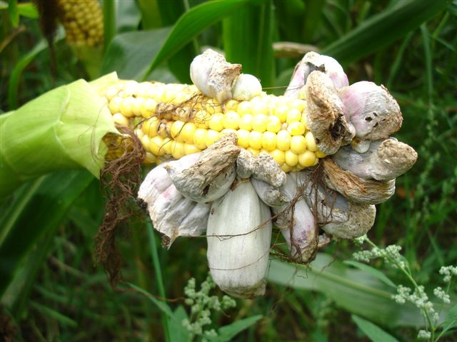 the maize disease corn smut. Picture taken on a maize field in Germany